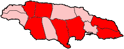 Parishes of Jamaica where exist Jamaician Hutias